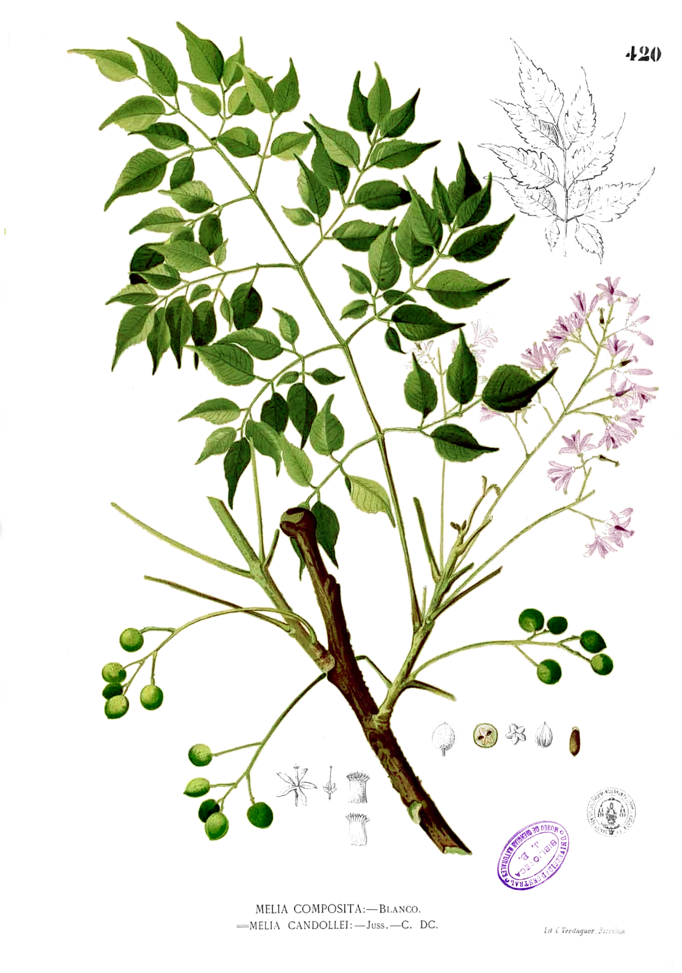 Plate from book